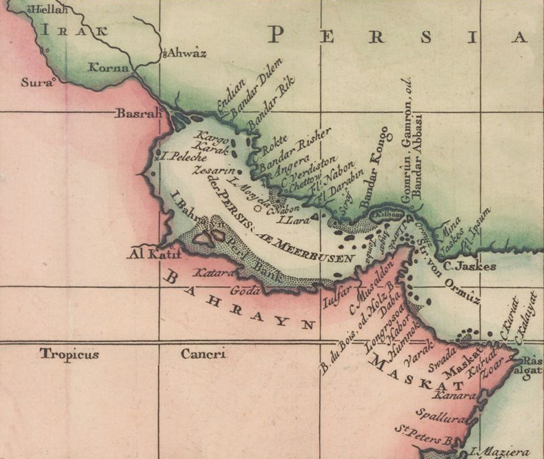 Cropped section of German version of Jacques-Nicolas Bellin's engraved map of Arabia